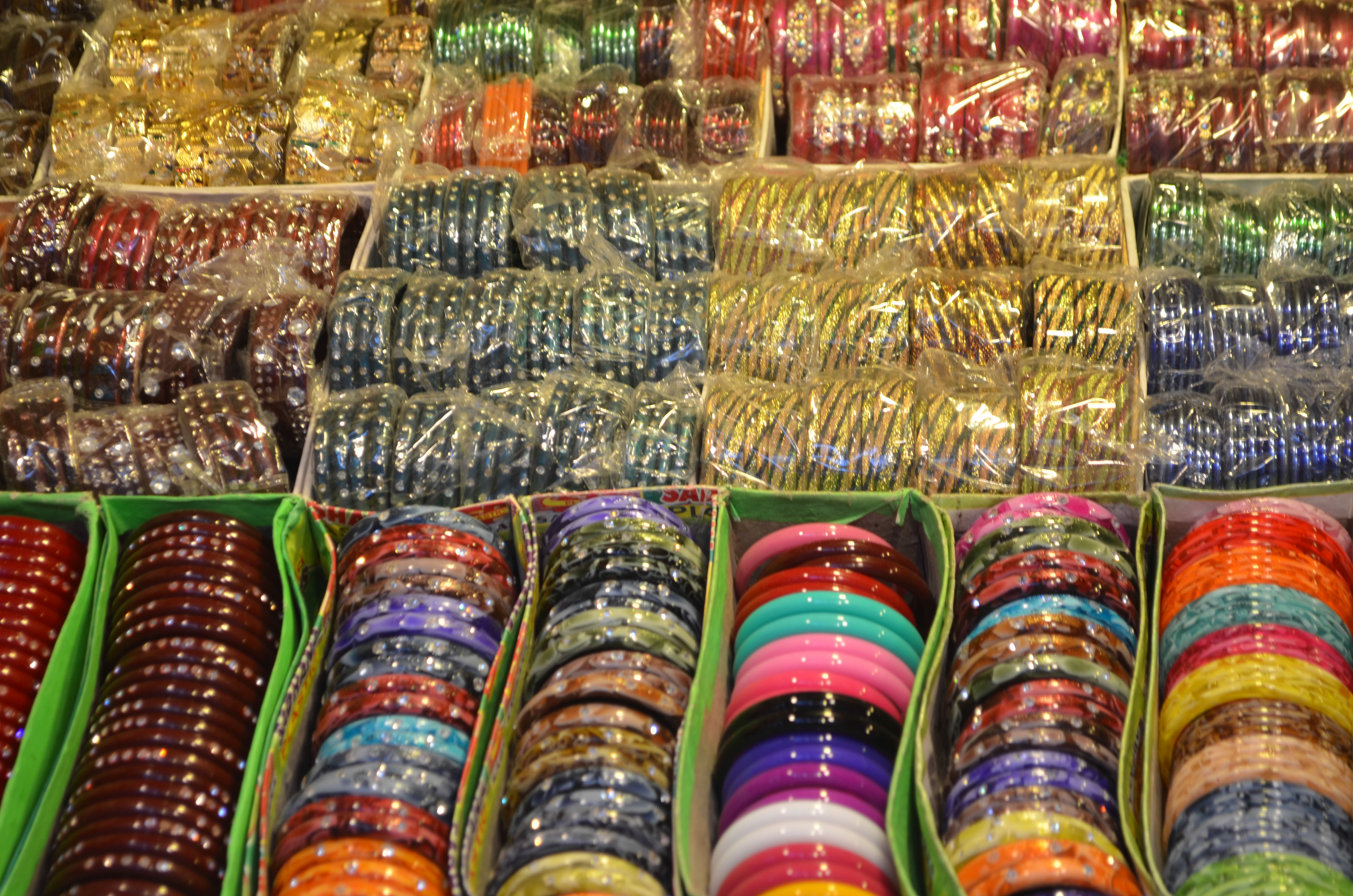 The image of multicolour glass bangles was taken in the project WTK 2015 in Gangotri.